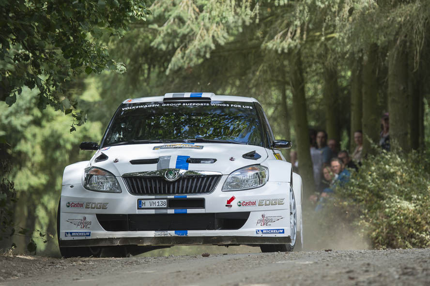 Rally Germany 2012 ADAC Rallye Deutschland,Julien Ingrassia,Motorsport,Rally,Rallye,Rallye Deutschland,SS10,Sebastien Ogier,Skoda Fabia S2000,Stein & Wein 2,Volkswagen Motorsport,WP10,WRC